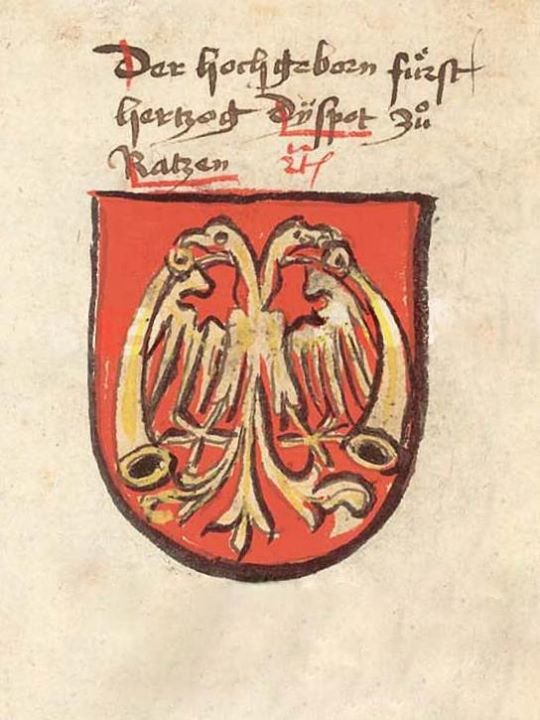 Coat of arms of the Despot of Serbia, from the Prussian edition of Ulrich von Richental's "Chronicle of the Council of Constance". Српски (ћирилица): Грб деспота Рашке из прашког преписа Рихенталове "Хронике о сабору у Констанци", средина XV века.